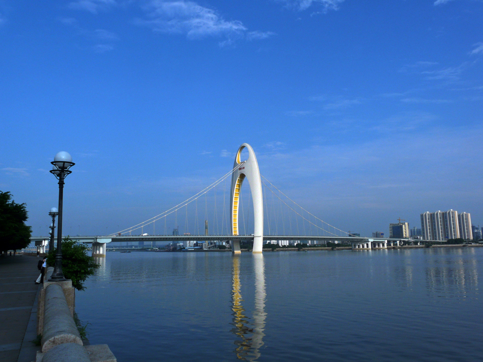 The Liede Bridge over the Pearl River in Guangzhou, Guangdong, China